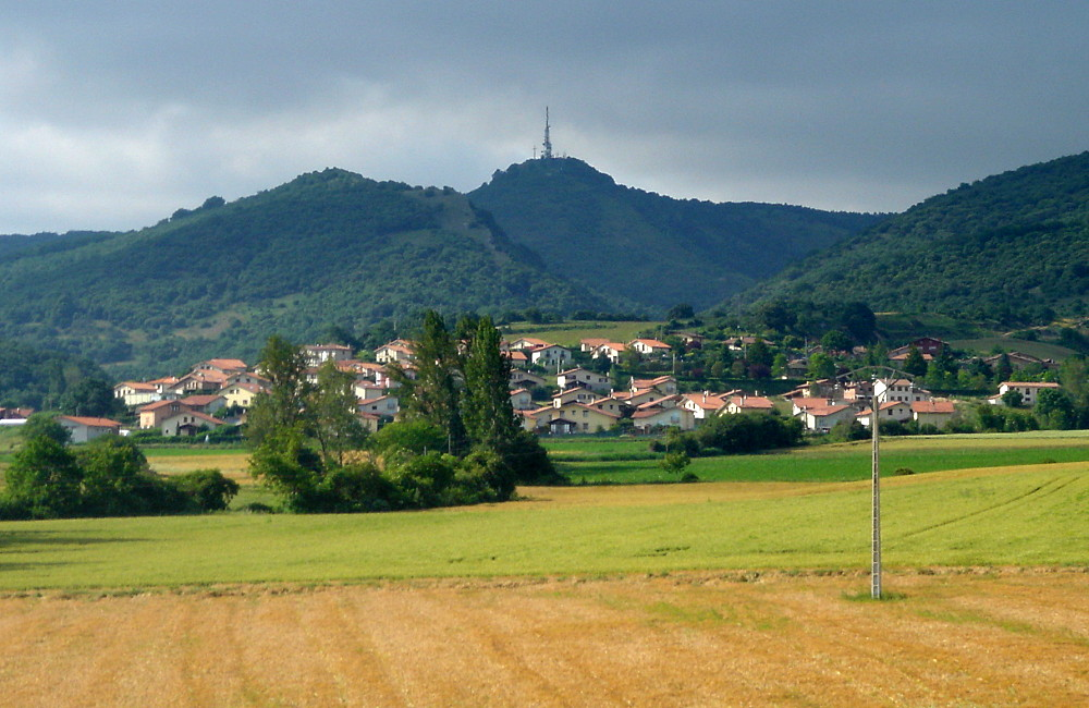 Doroñu (Trebiñu)